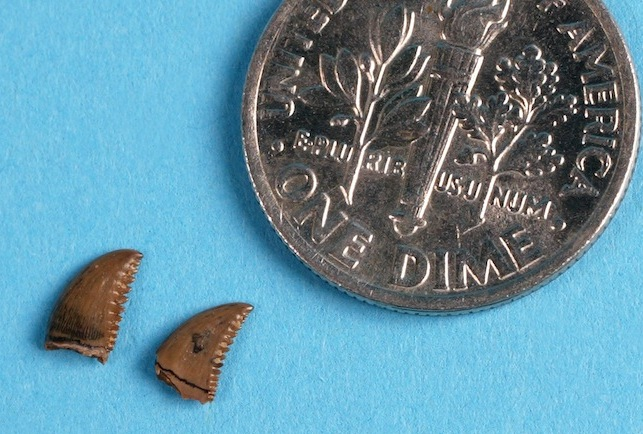 Troodon teeth (Troodon formosus) in the permanent collection of The Children’s Museum of Indianapolis